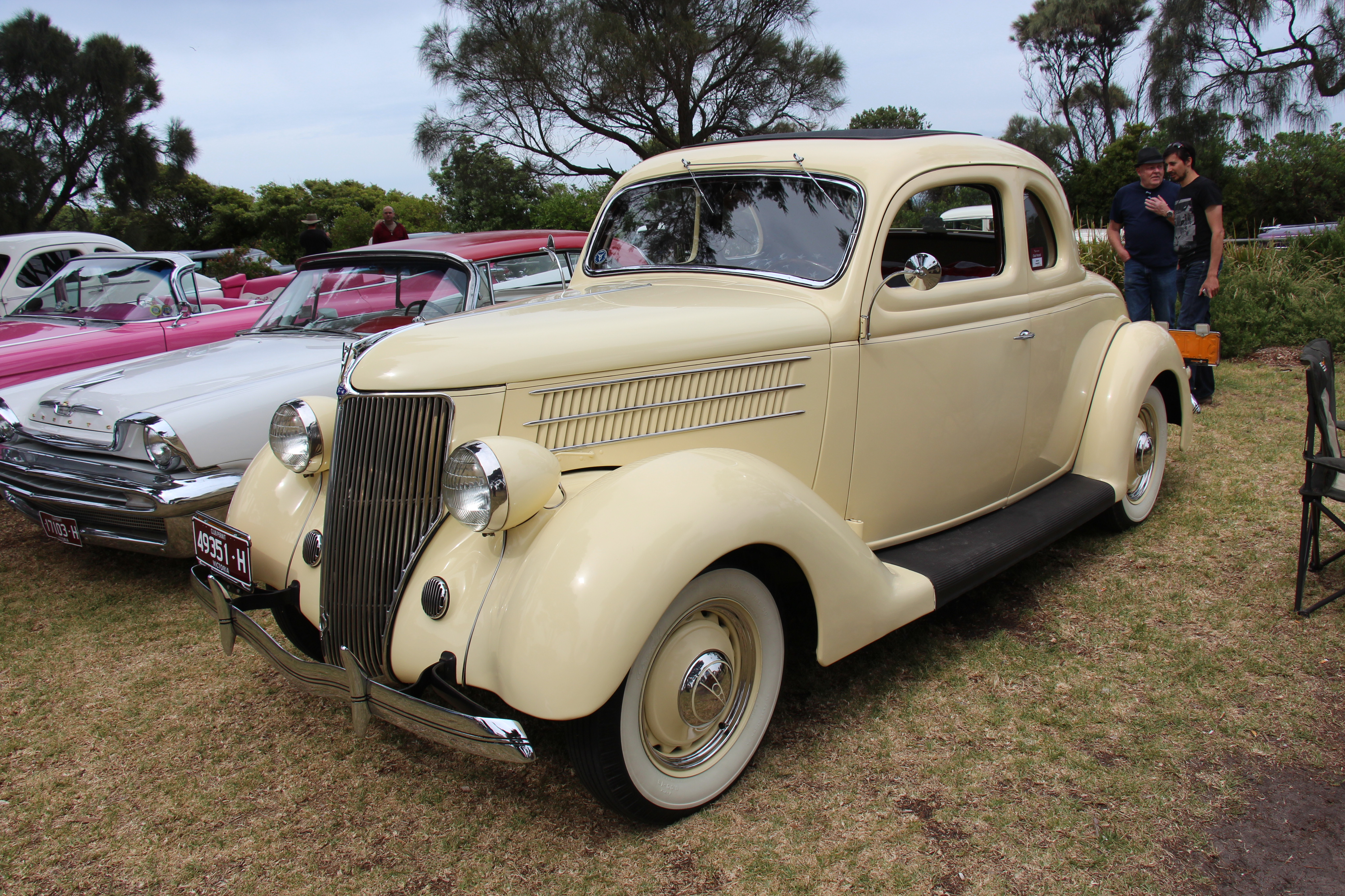 The 1935/36 Model 48 replaced the 40A with a lower body, the engine and grille were pushed forward giving more room in the cabin. The four cyl no longer available, all Ford cars were powered by the Flathead V8. There were still many body styles available; Flatback or Trunkback Sedans, Tudor, 3 or 5 window Coupes, Roadster, Phaeton and Woody Wagon. (no Victoria body now). The Model 48 got a facelift in 1936 with the hood now coming over the grille which now had just vertical bars, it was available in Standard or Deluxe. (Deluxe had Chrome bars in the grille) also new for 1936 were the use of pressed steel artillery solid wheels instead of wire wheels. The 36 Ford was not only built in the US but also in other countries including Australia. 1934 was the year the worlds first coupe utility was available, designed and built in Australia based on the Ford Model 40A, available again in the Model 48. Engine; 85hp 221 cu in flathead V8